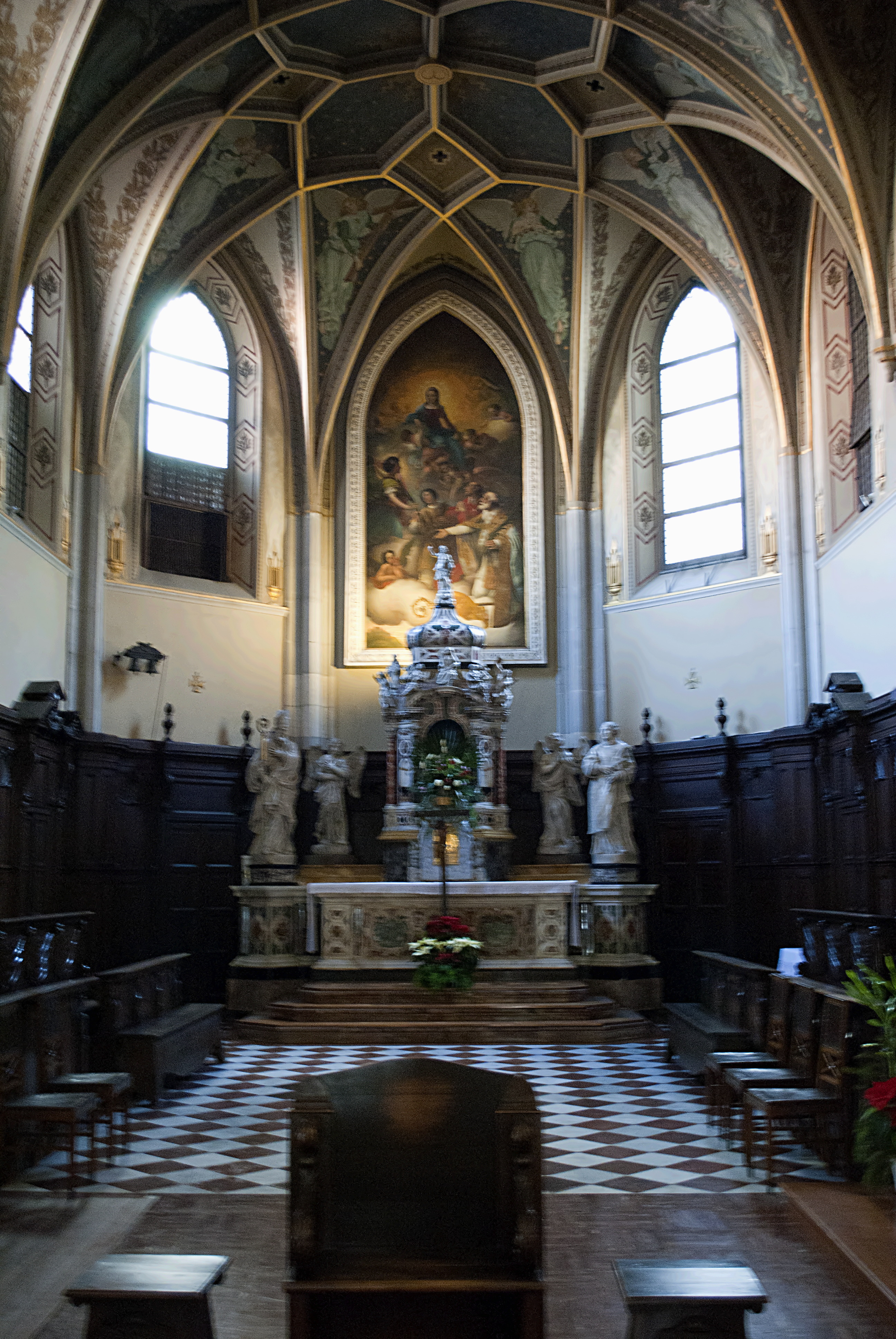 The Duomo of Gorizia, Italy; view of the interior.